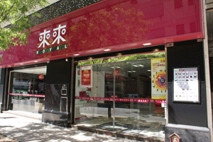 The 3rd branch of Royal Electronics Square.